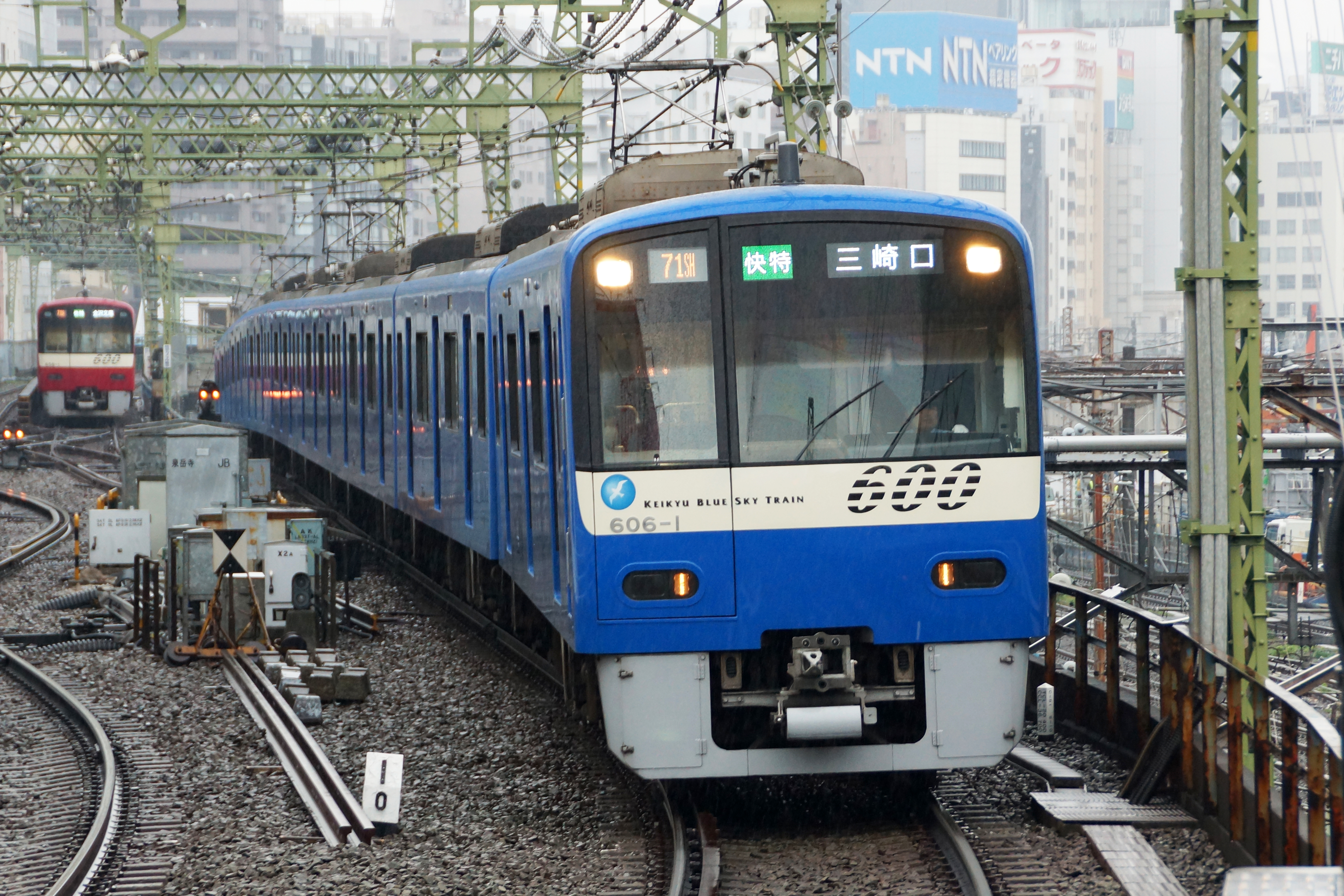 Keikyu 600 series EMU set 606 in "Keikyu Blue Sky Train" livery approaching Shinagawa Station on a limited express service to Misakiguchi